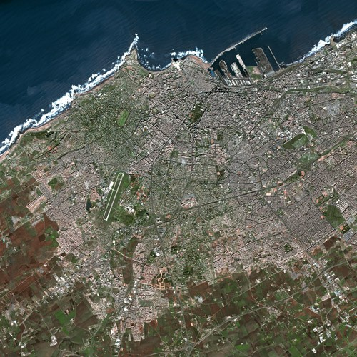 Casablanca by SPOT Satellite